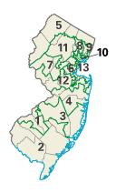 Image adapted from US fed gov't source Category:Congressional districts of New Jersey Category:New Jersey maps